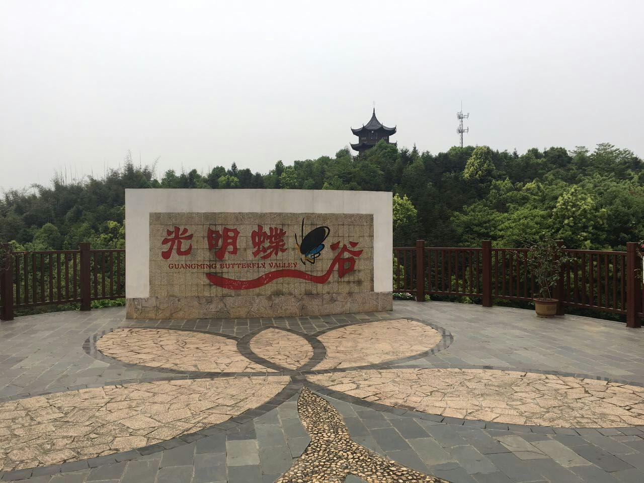 Stele of Guangming Butterfly Valley in Guangming Butterfly Valley, in Bairuopu Town of Wangcheng District, Changsha, Hunan, China.